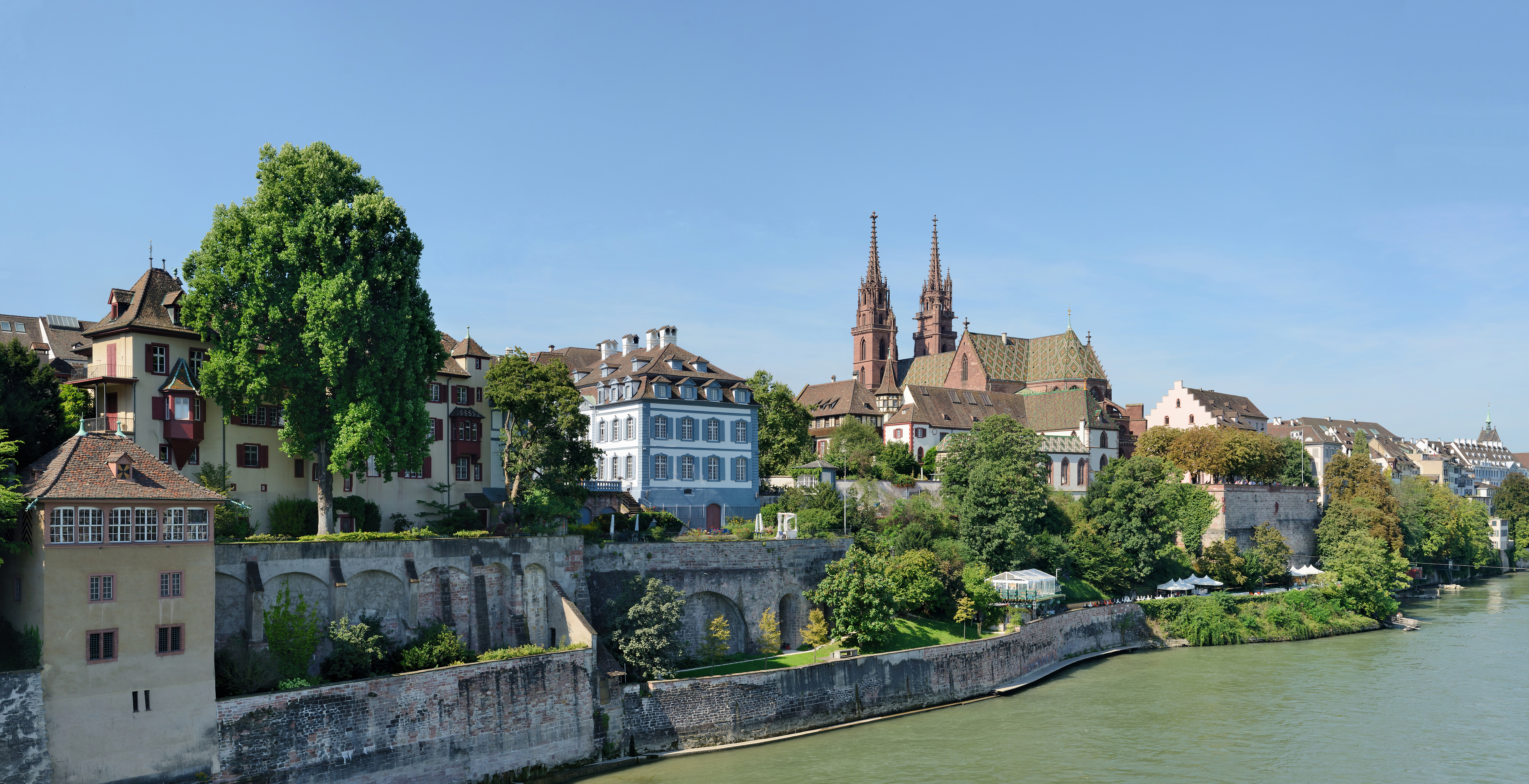 Basel: Pfalz, Minster and surroundings